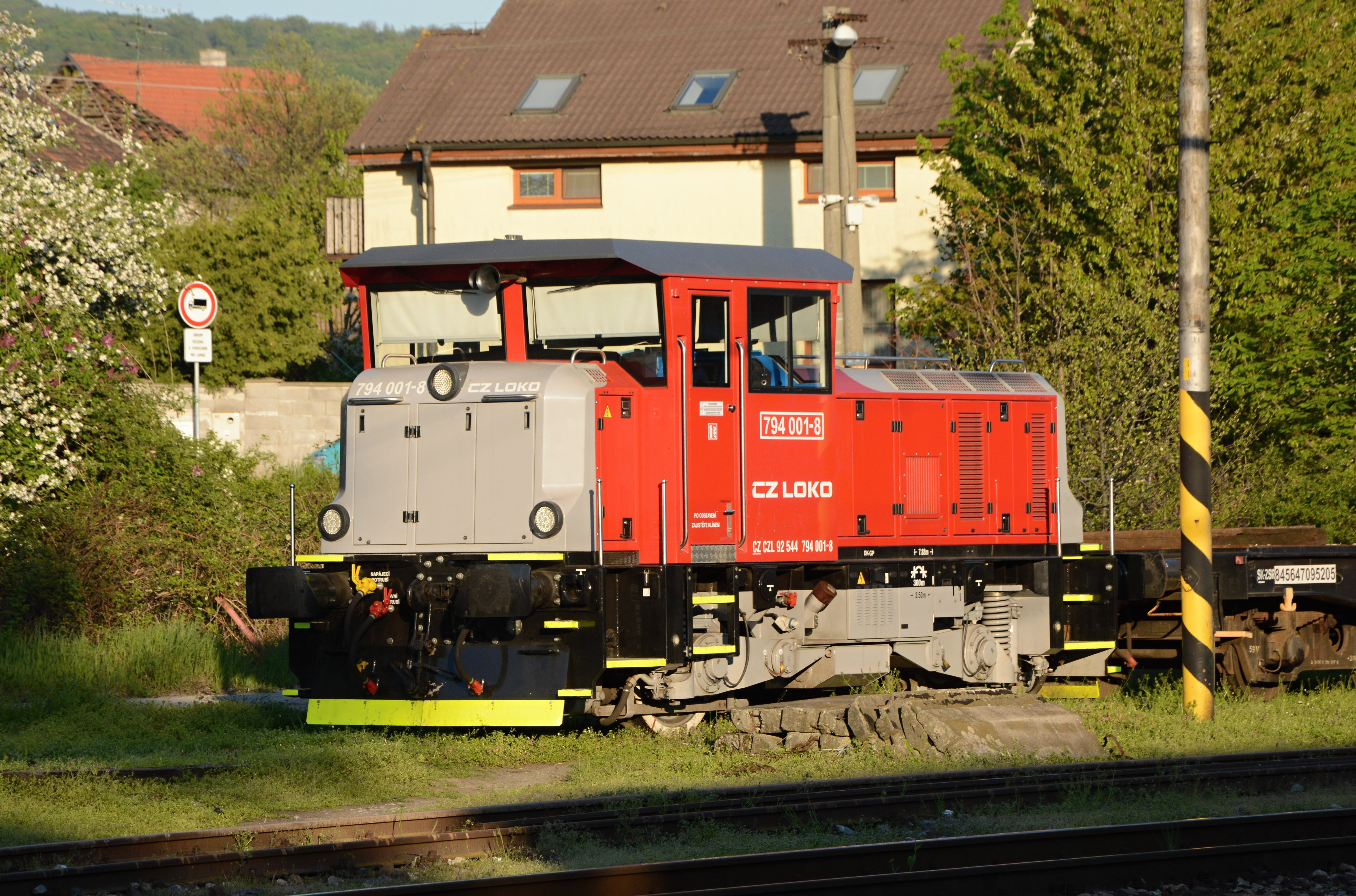 Locomotive 794.001 of CZ LOKO; Bratislava-Lamač station